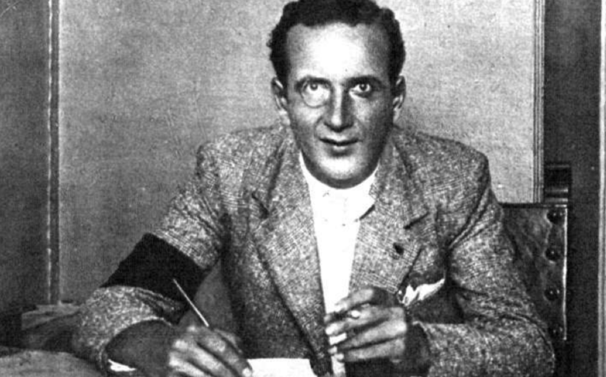 Skossyreff Writing Constitution.